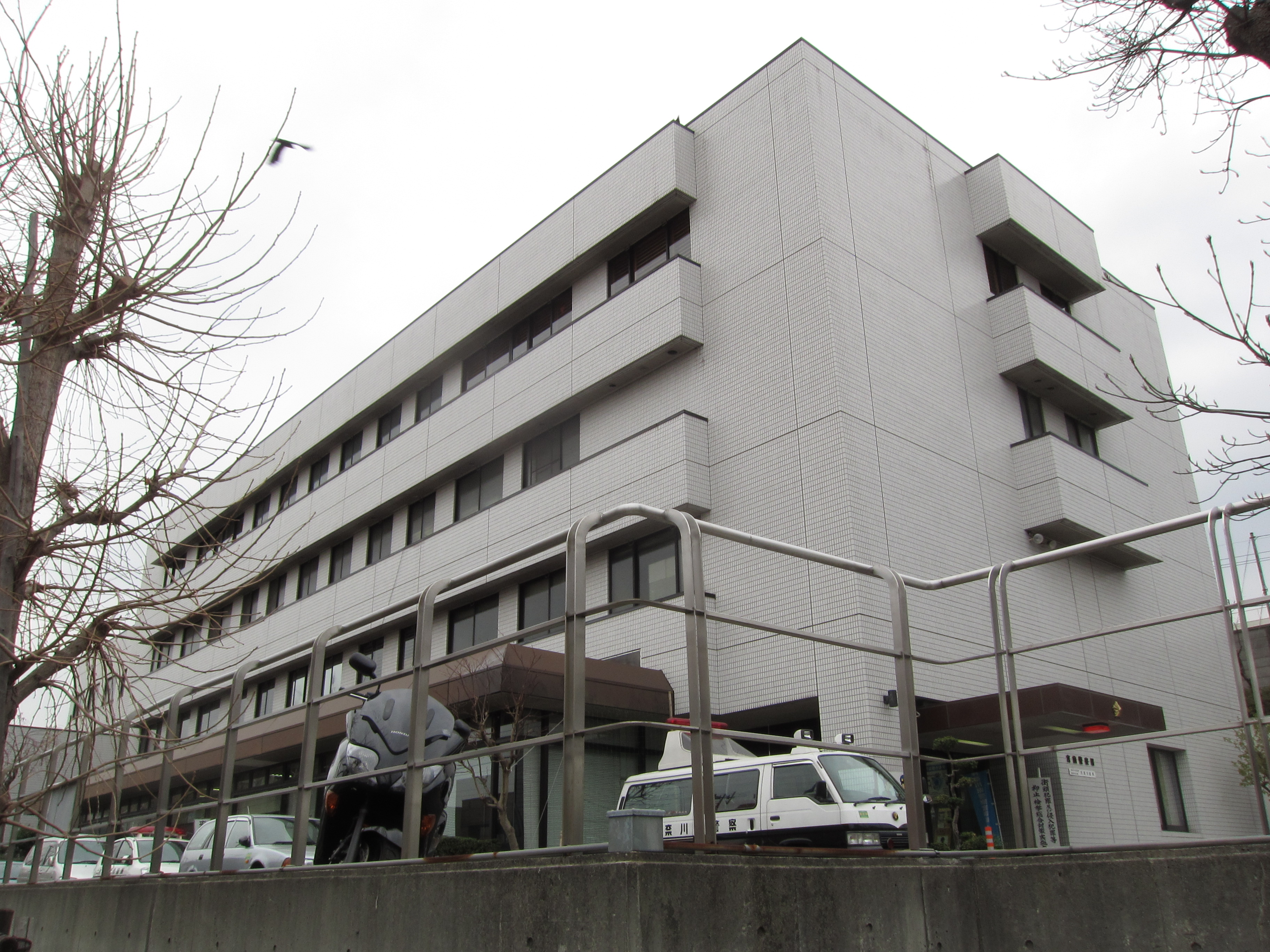 Miyamae Police Station